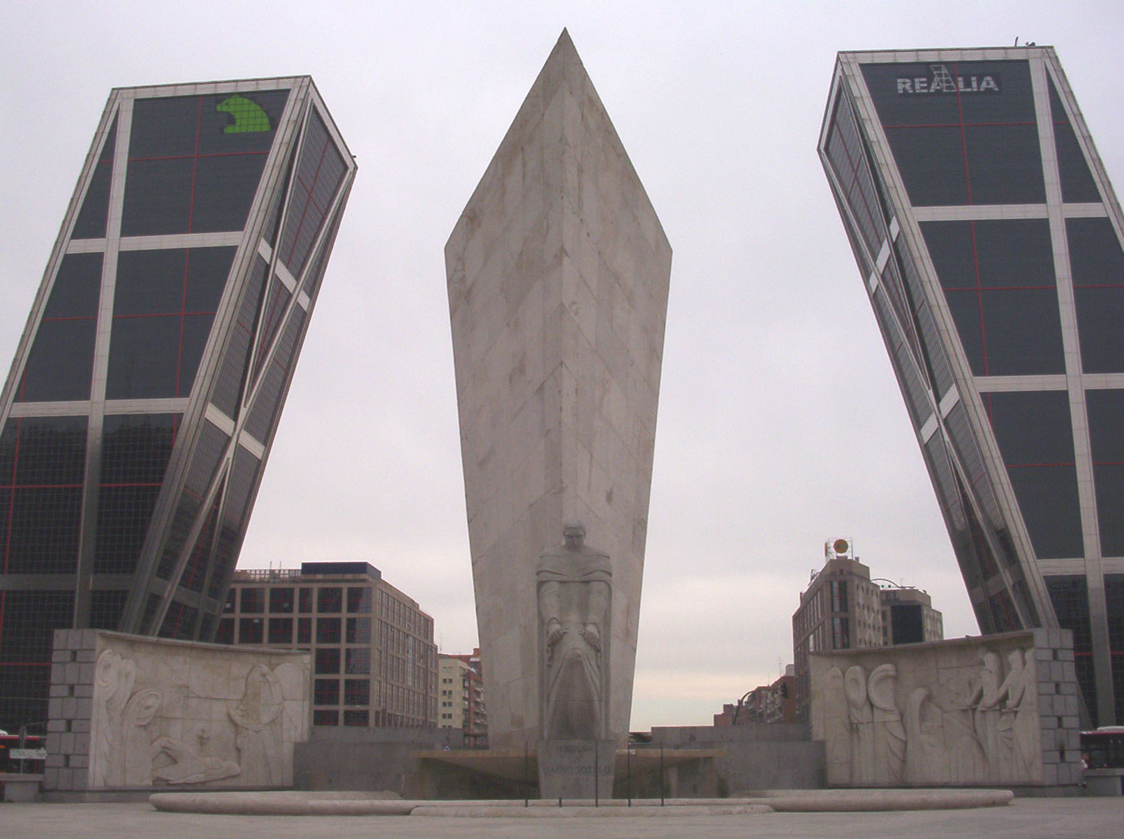 Monument to José Calvo Sotelo (1893–1936). Built in Madrid (Spain) in 1960. Made by architect Manuel Manzano Monís and sculptor Carlos Ferreira. View of the southern side.